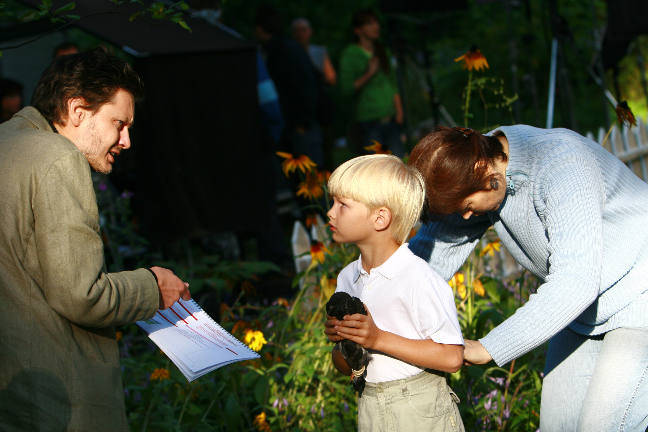 Ihor Podolchak and Stas Arsentyev at the movie set